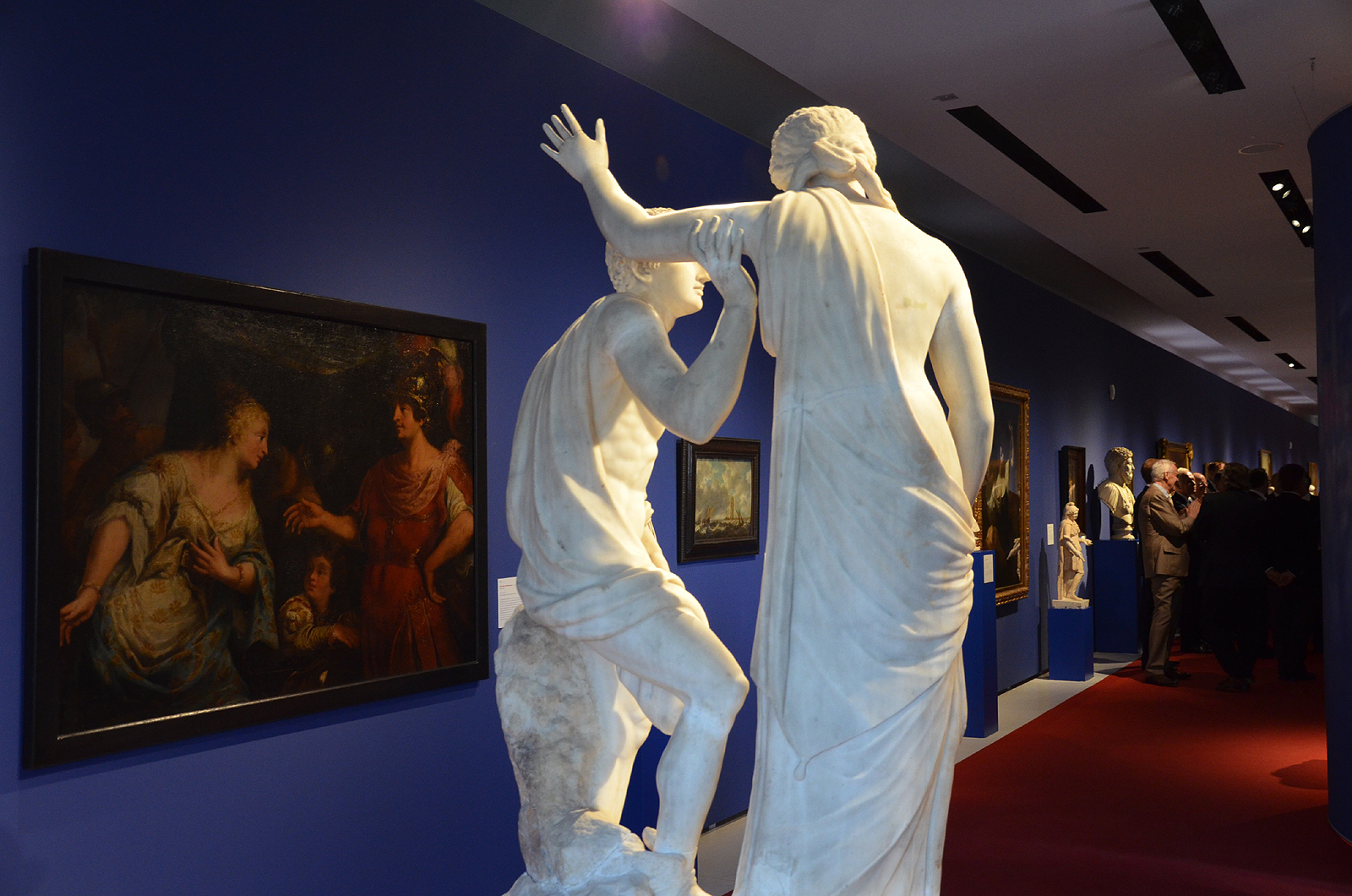 The art collection of Johann Ludwig, Reichsgraf von Wallmoden-Gimborn, seen in Hanover in the Herrenhausen Palace Museum in the exhibition The Hanoverians on Britain's Throne, 1714 - 1837 ...